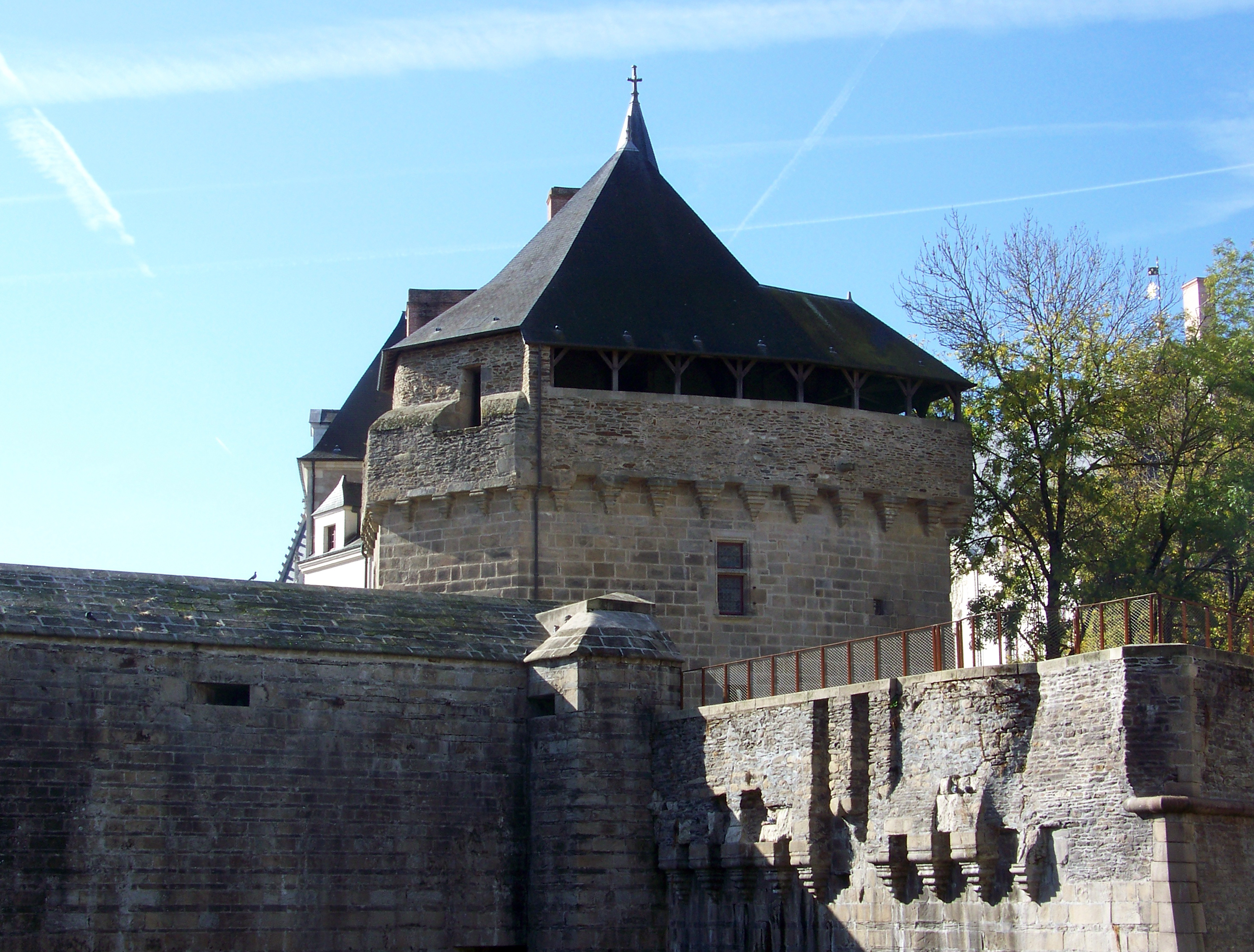 Tower of the Old Keep in the Castle of the Dukes of Brittany in Nantes.